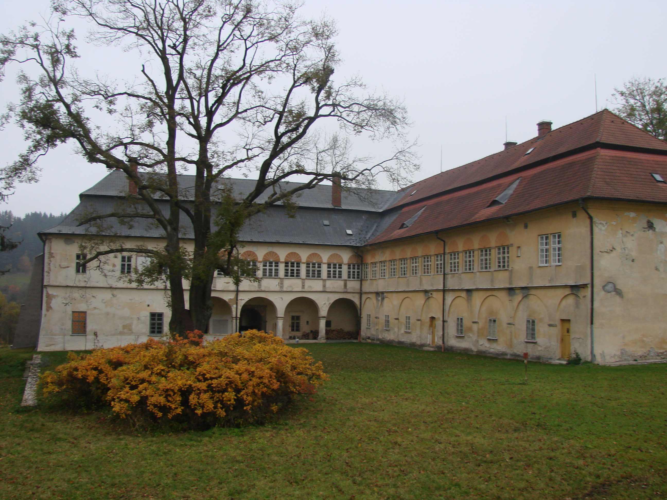 A manor house in the village of Nový Studenec, the Czech Republic.